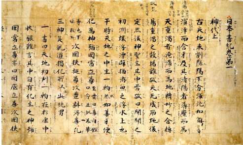 The Age of Gods, chapters from The Chronicles of Japan (日本書紀神代巻, Nihon Shoki jindai-kan), Yoshida edition. Part of two scrolls located at the Tenri University Library, Nara, Japan